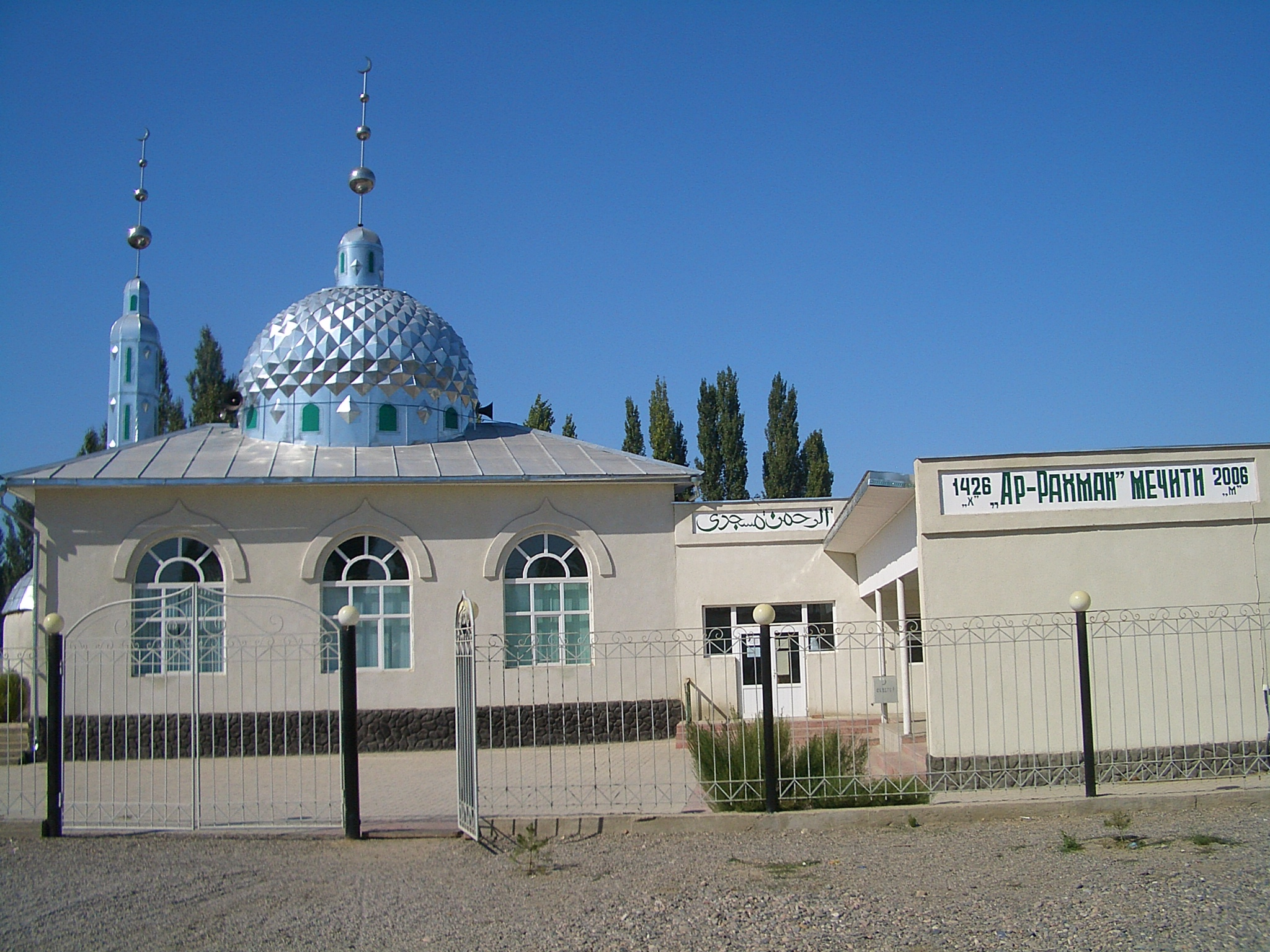 The mosque in Lenin St, Milyanfan village, Kyrgyzstan.